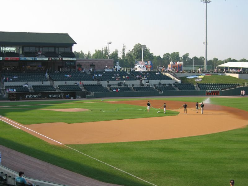 An alternative image of Ripken Stadium taken on July 26, 2005.